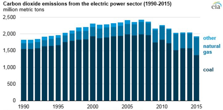 Natural gas CO2 emissions have increased since 2009, as the natural gas share of electricity generation has grown at the expense of coal, partially offsetting the decline in energy-related CO2 emissions from petroleum and other liquids and coal. Natural gas CO2 emissions were still slightly lower than those from coal in 2015. However, natural gas produces more energy for the same amount of emissions as coal—contributing to the 2015 decline in total emissions.